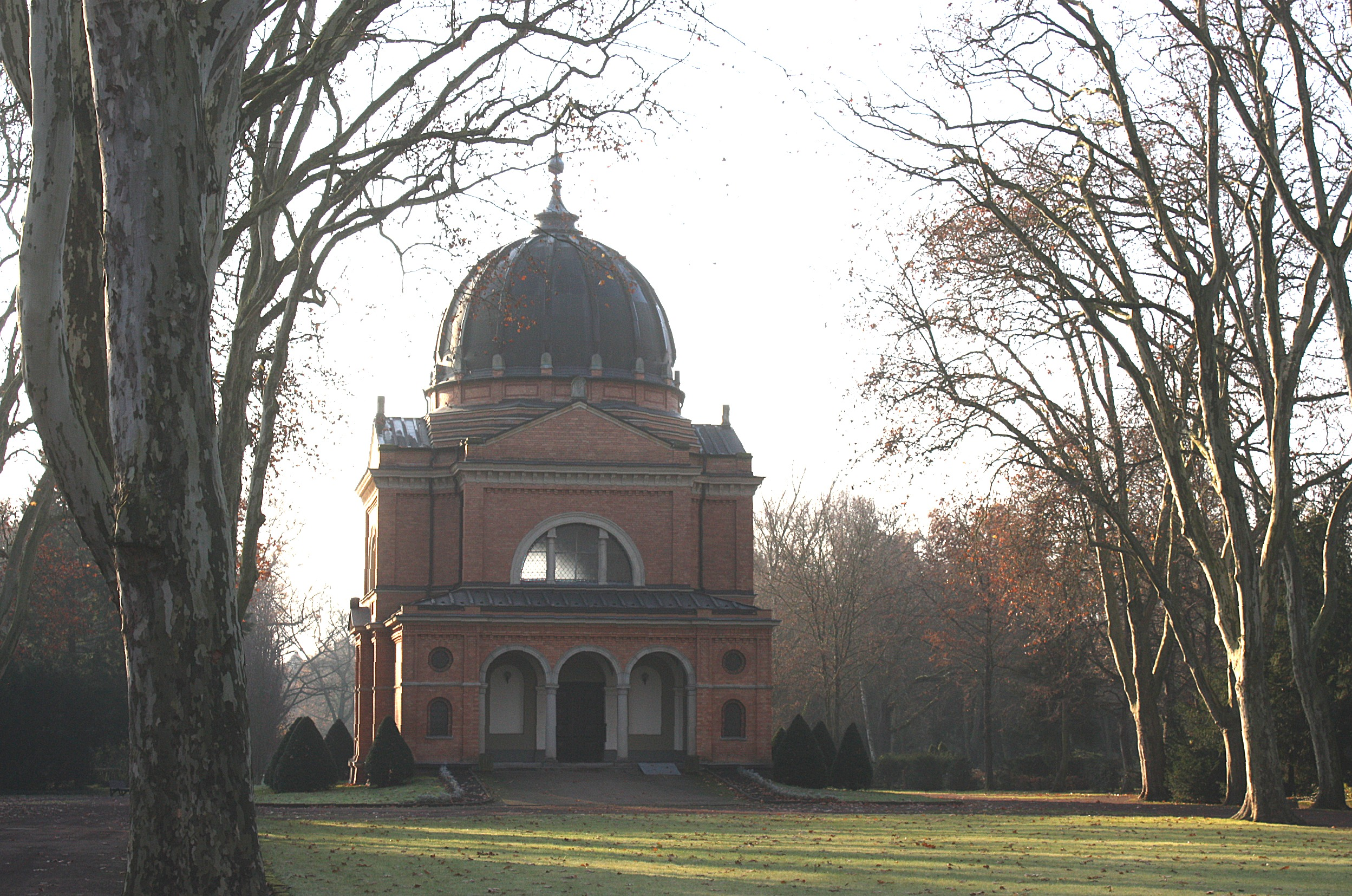 Halle (Saale), the mourning hall in the southern cemetery